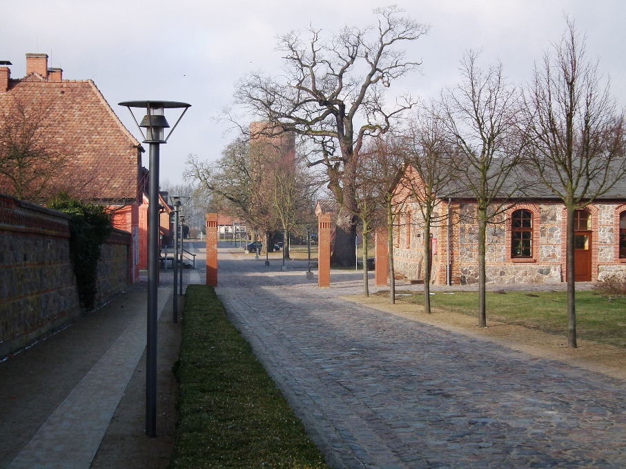 do folwarku w Rothenklempenow